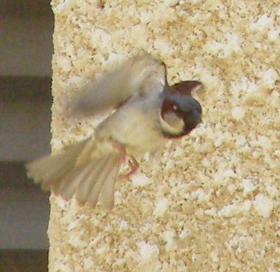 A male House Sparrow (Passer domesticus) taking off to a flight from a wall.